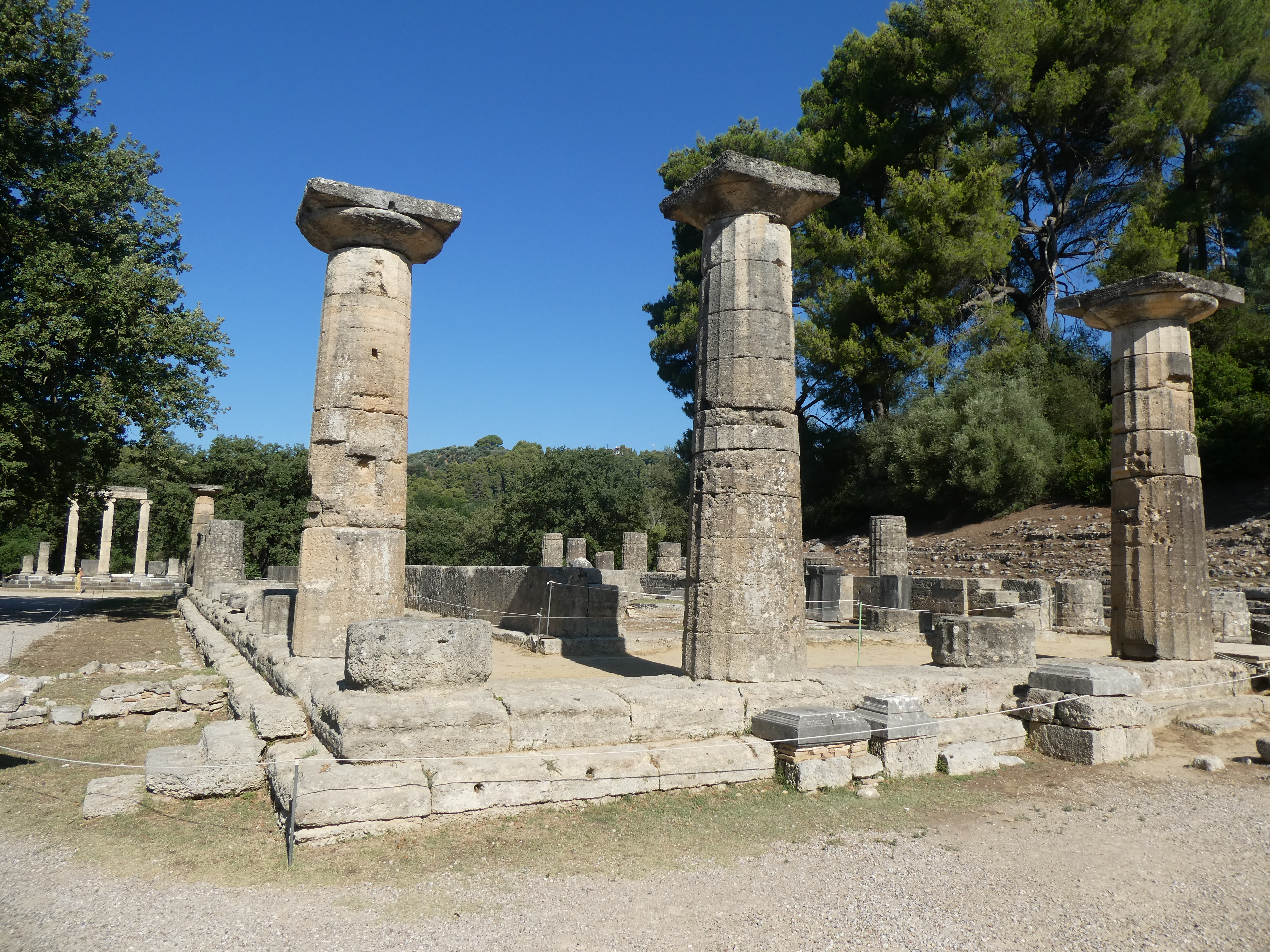 The photo of the temple in Olimpia